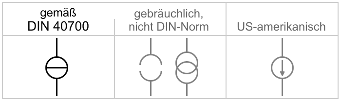 German and international graphic symbols of current sources